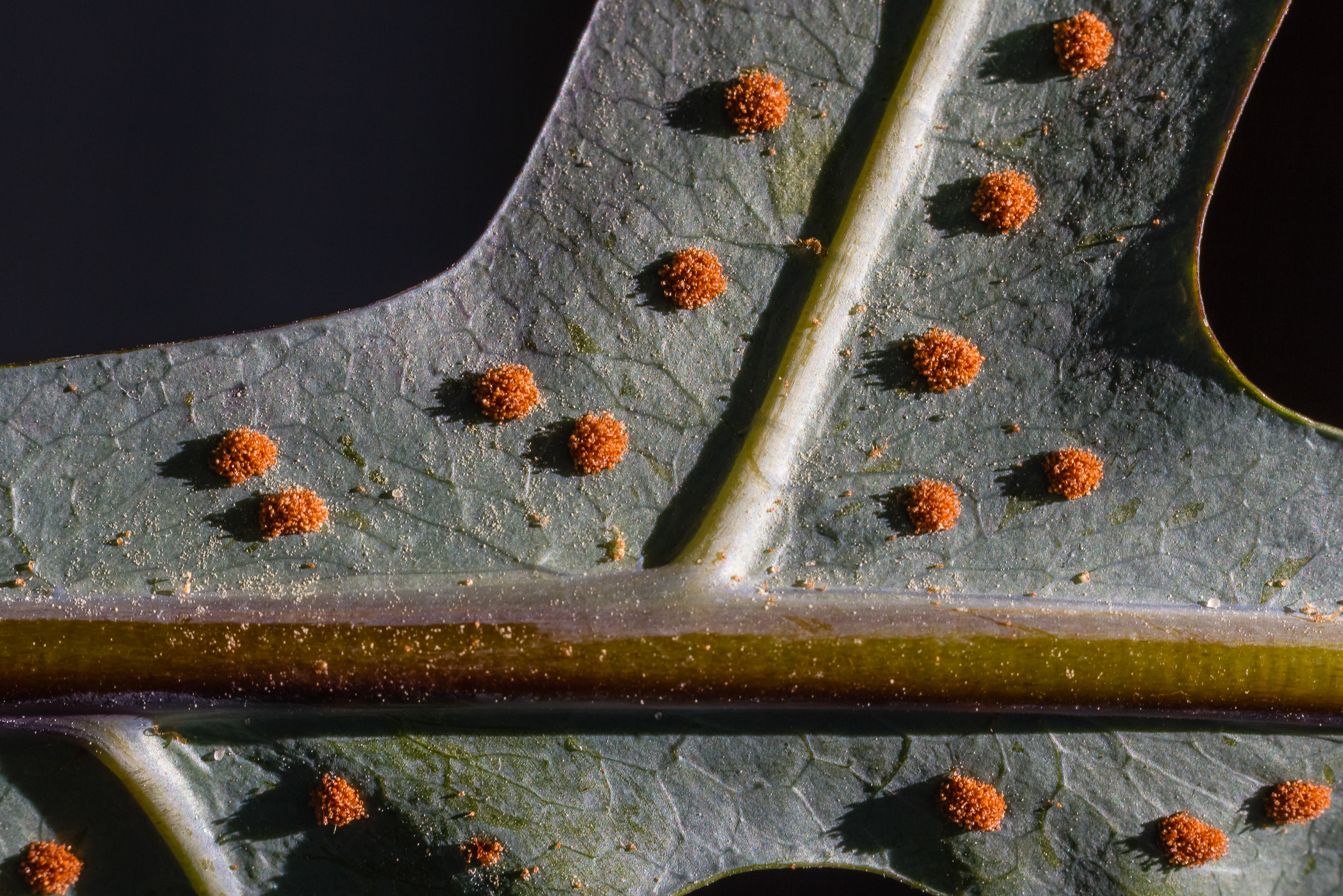 Back of a Polypody-leaf